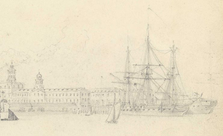 HMS Pyramus at Portsmouth Dockyard 6 September 1825. HMS Pyramus, 50 guns, on the right, was launched at Portsmouth Dockyard on 22 January 1810, drawn by John Christian Schetky.